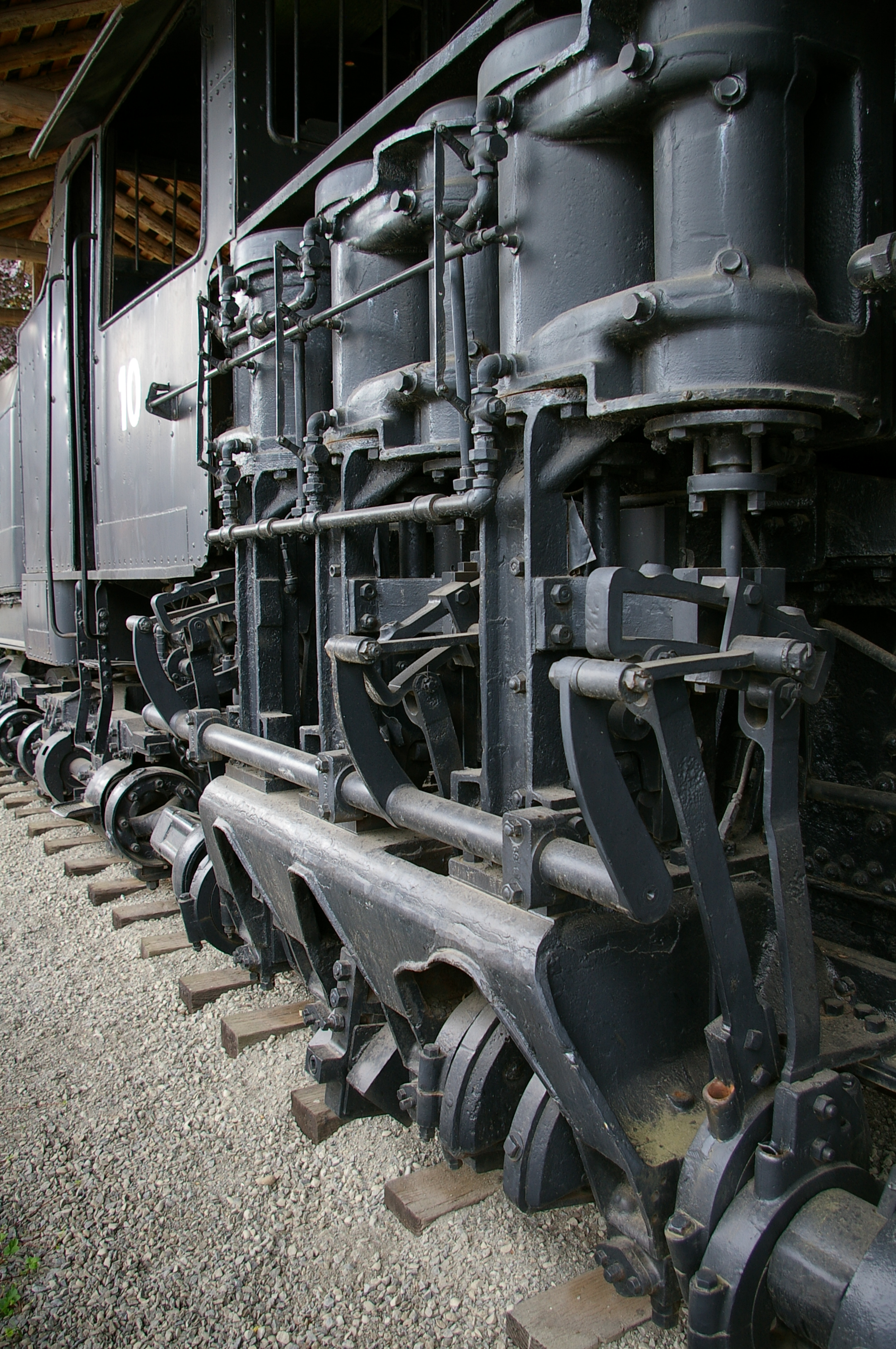 Forks, Washington - Shay Locomotive showing three cylinders and the crankshaft that runs down the right side of the engine.